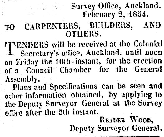 Advert in the New Zealander calling for tenders for the construction of New Zealand's first Parliament House